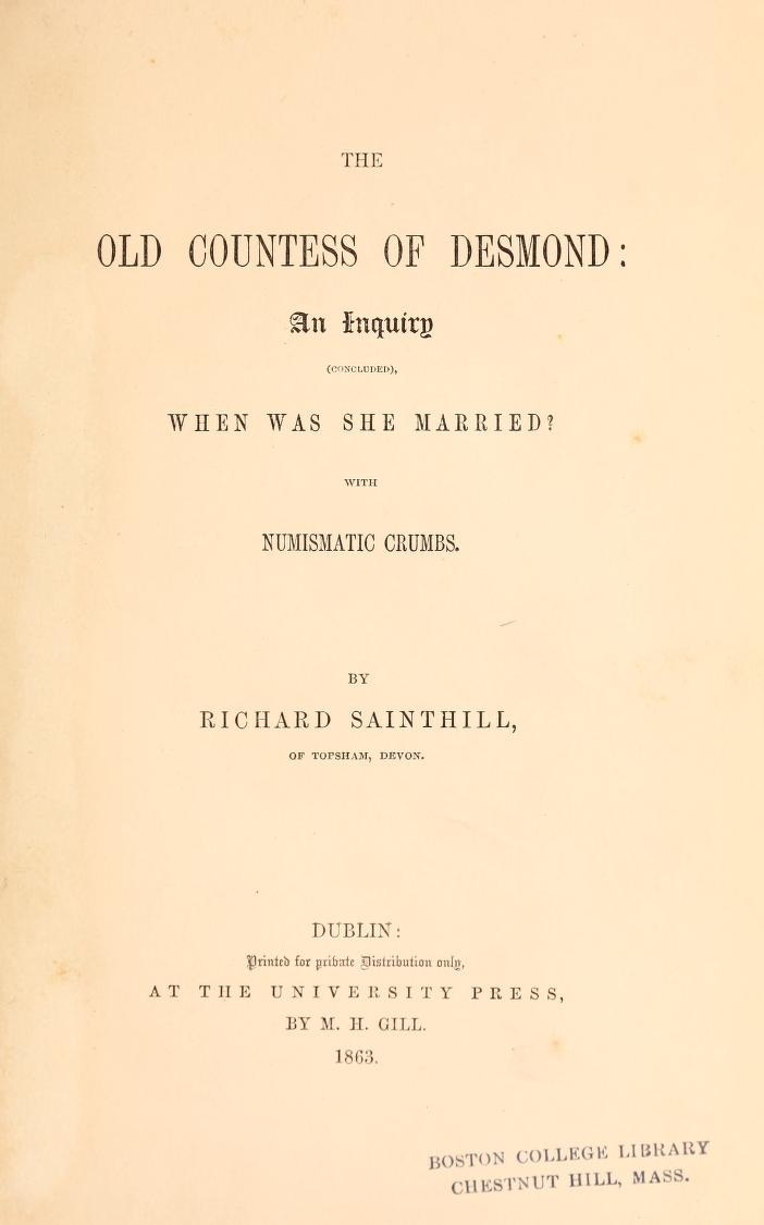 Richard Sainthill, The Old Countess of Desmond part 2 (Dublin, 1863) title page